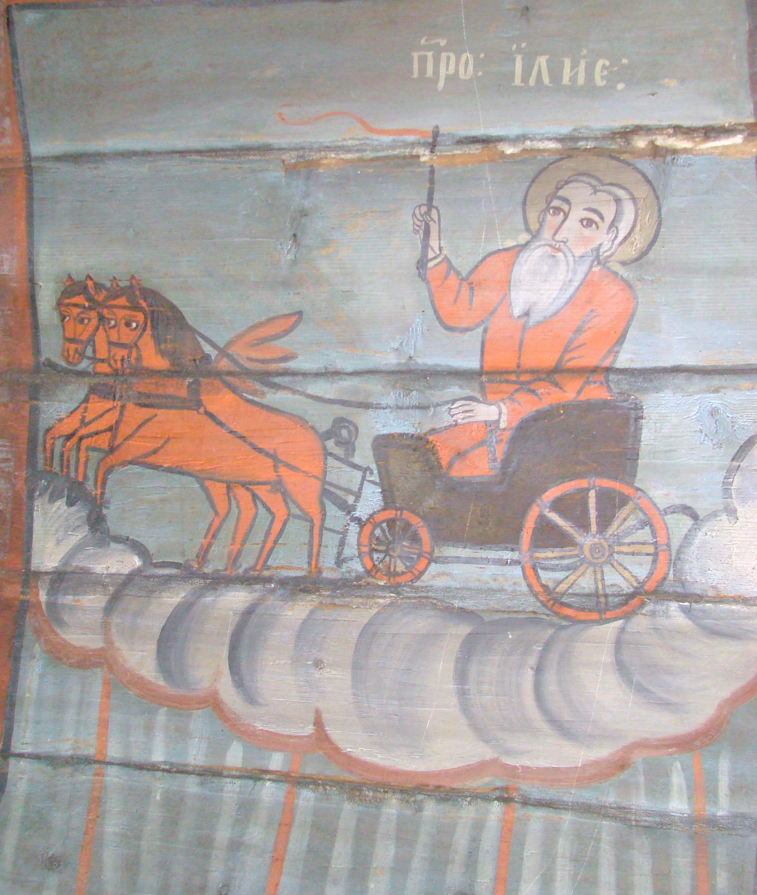 Rotărești, Bihor county, Romania: the wooden church